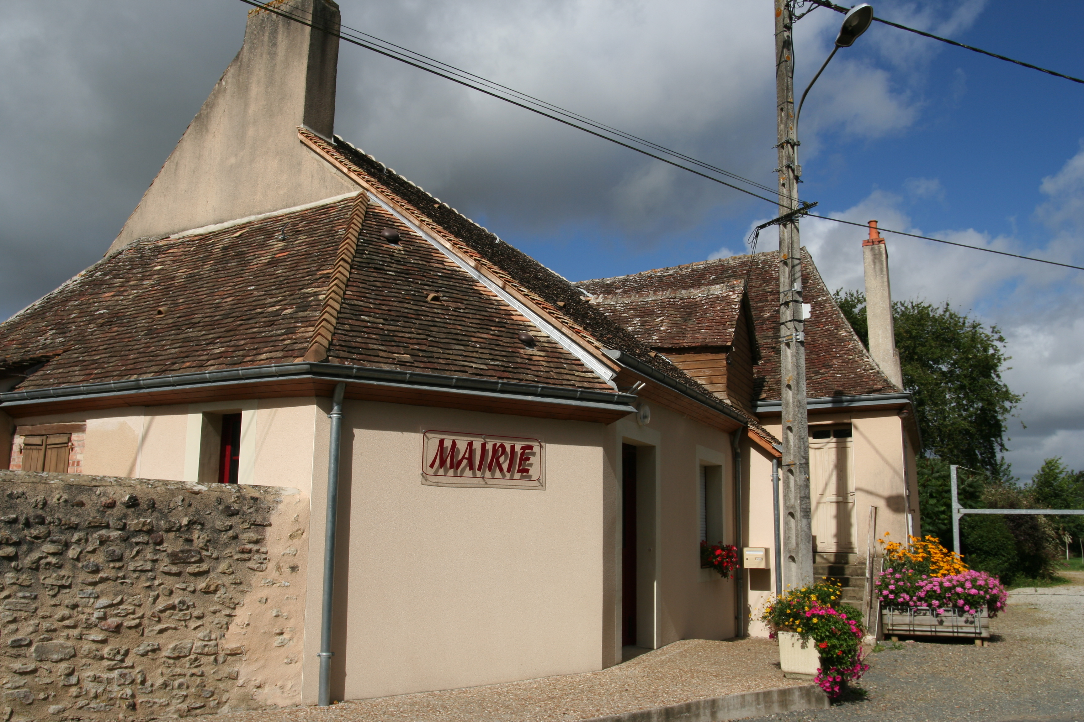 Town hall of Terrehault